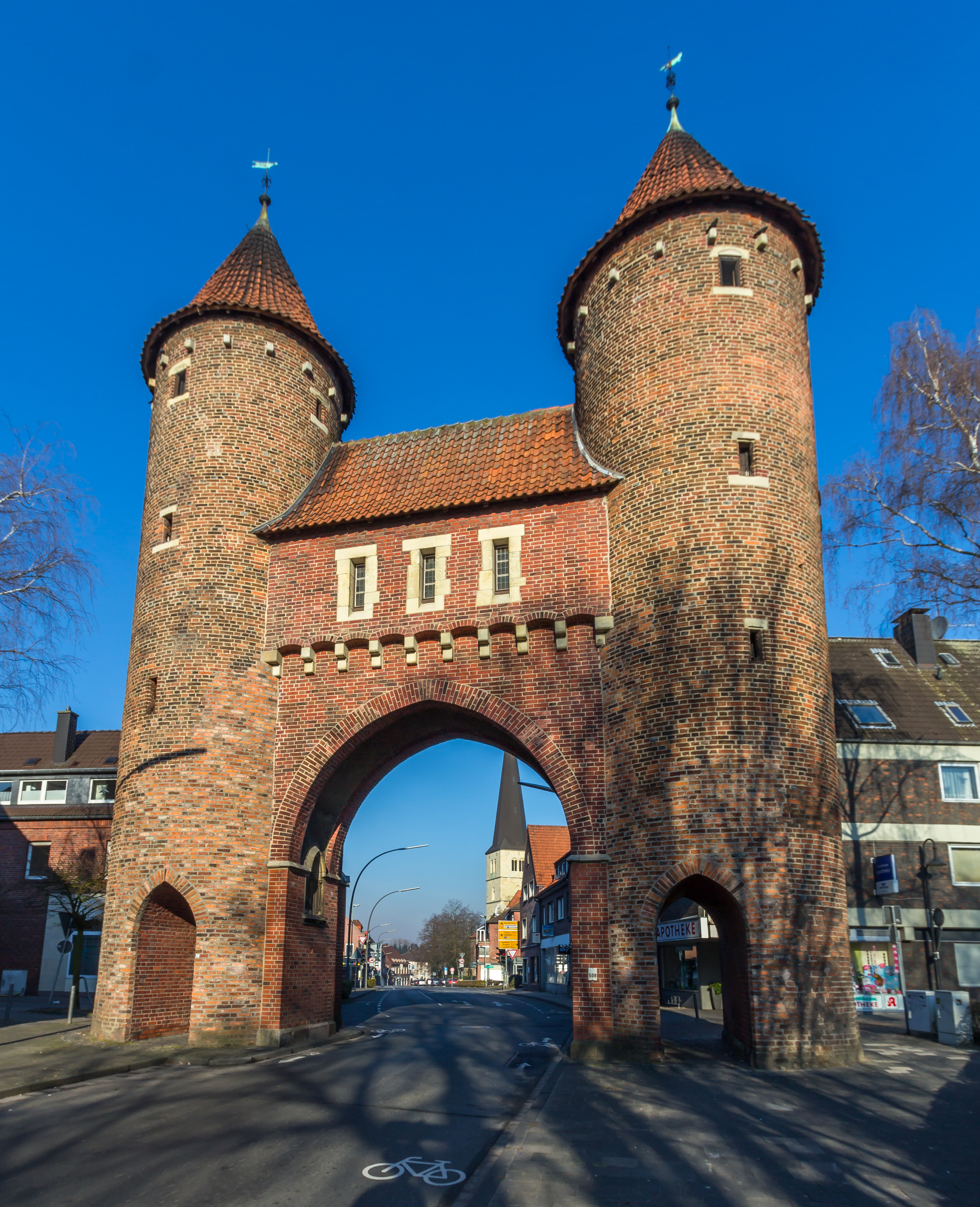 Lüdinghausen Gate in Dülmen, North Rhine-Westphalia, Germany This image shows a heritage building in Germany, located in the North Rhine-Westphalian city Dülmen (no. 1).